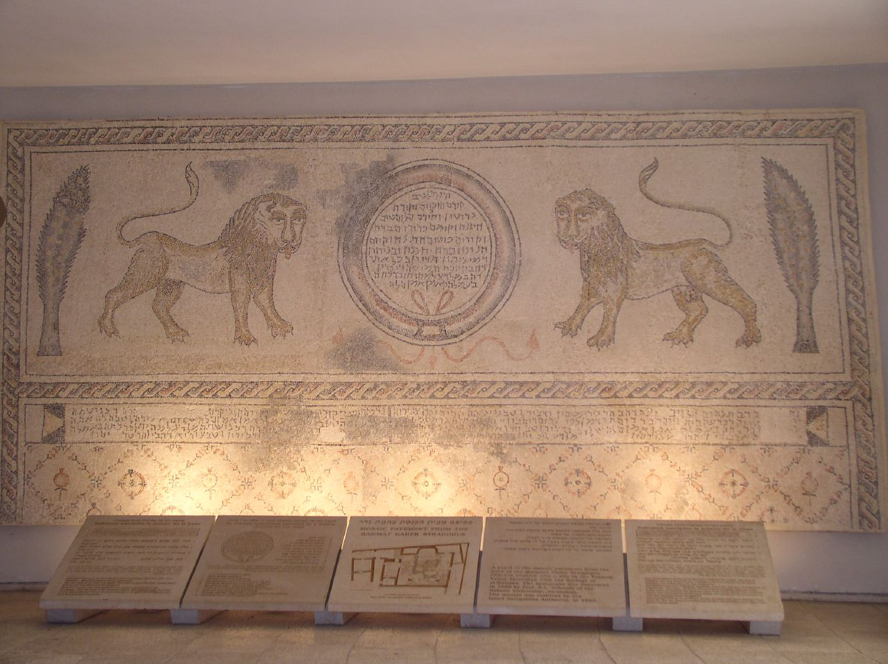 West Jerusalem - Entrance hall of the Supreme Court of Israel - A section of the mosiac pavement recovered from the Hamat Gader synagogue and restored in the '90s. It was in that synagogue from the 5th-8th century.